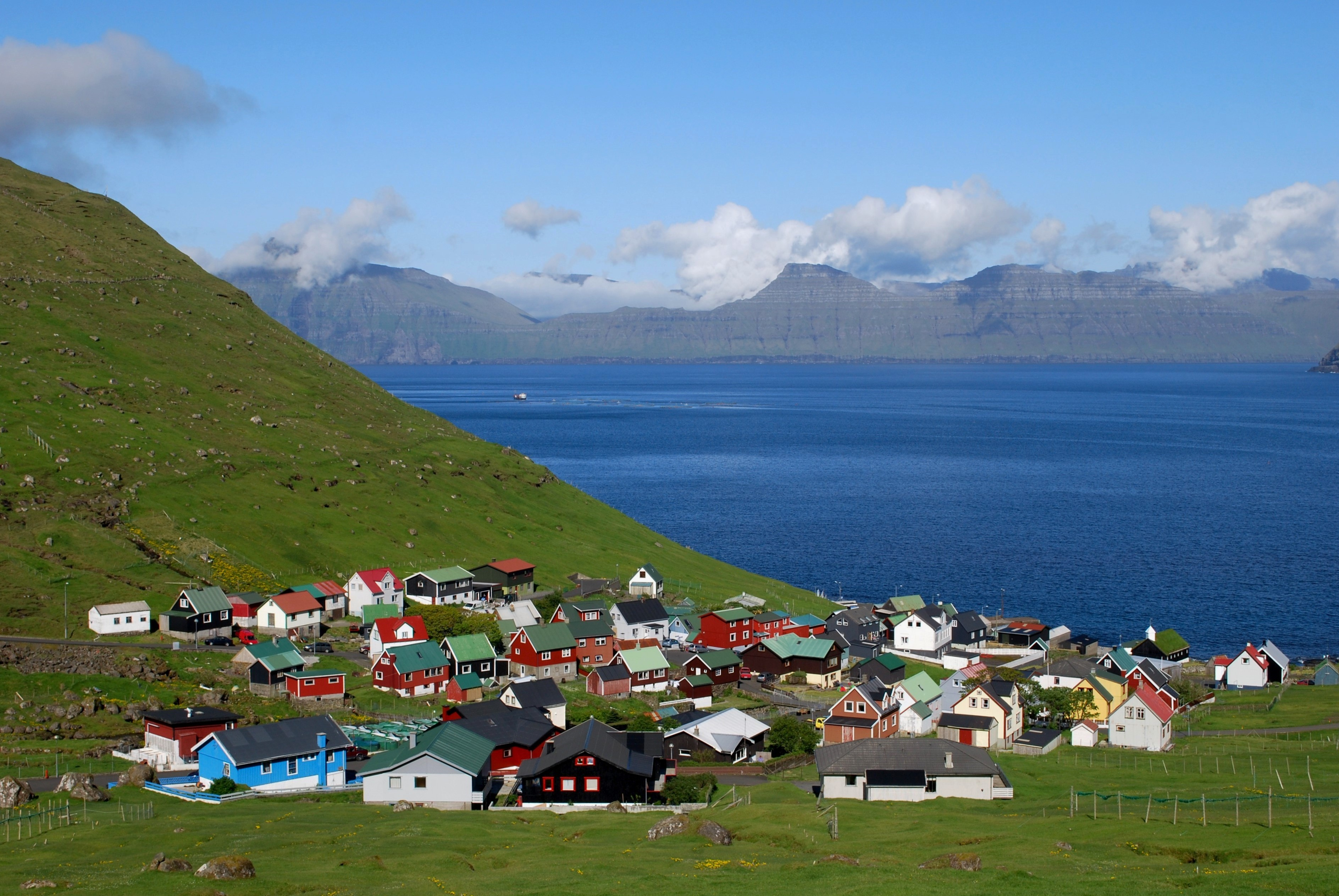 Funningur, Eysturoy, Faroe Islands